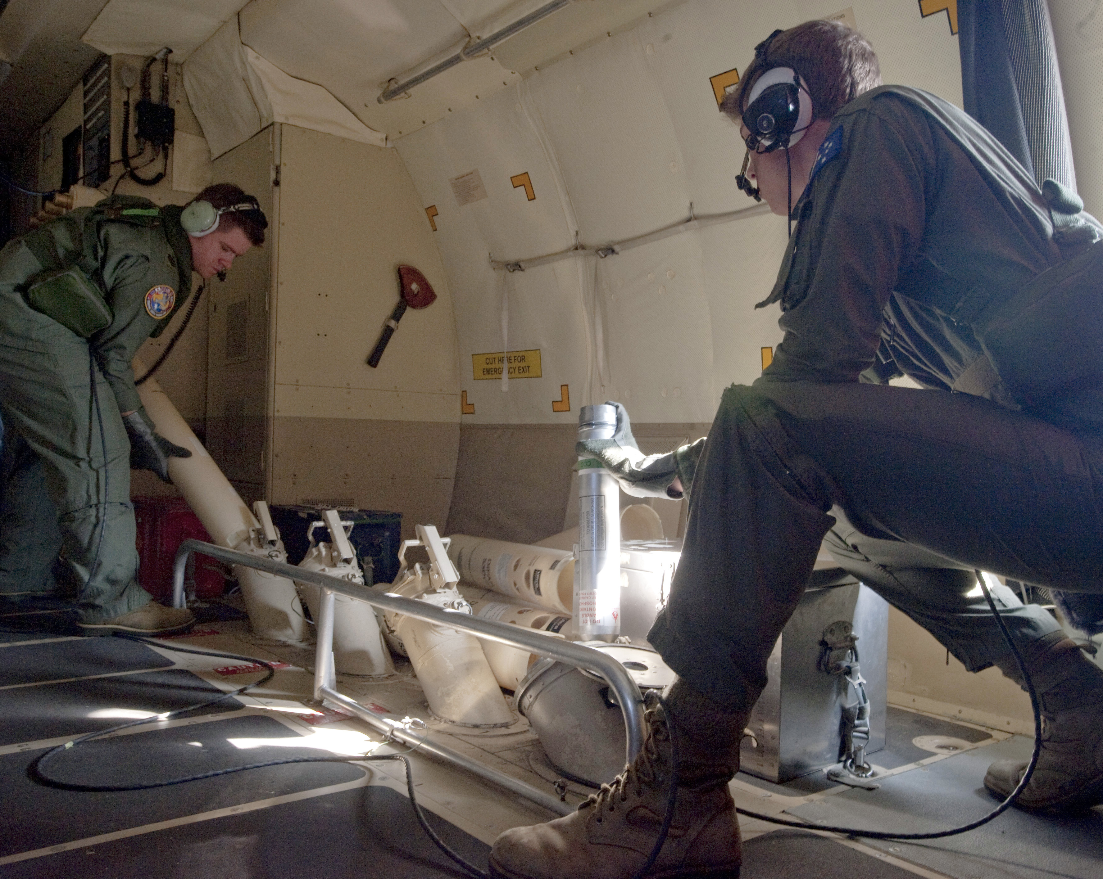 Sgt. Shane Forrest, left, loads a sonobouy while Flight Sgt. Adam Priestley waits with an ocean marker for a positive identification of a submarine in the water aboard an AP-3C Orion aircraft during a Rim of the Pacific (RIMPAC) 2010 anti-submarine warfare exercise during. Forrest and Priestly are assigned to the Royal Australian Air Force Number 11 Squadron. RIMPAC is a biennial, multinational exercise designed to strengthen regional partnerships and improve multinational interoperability.